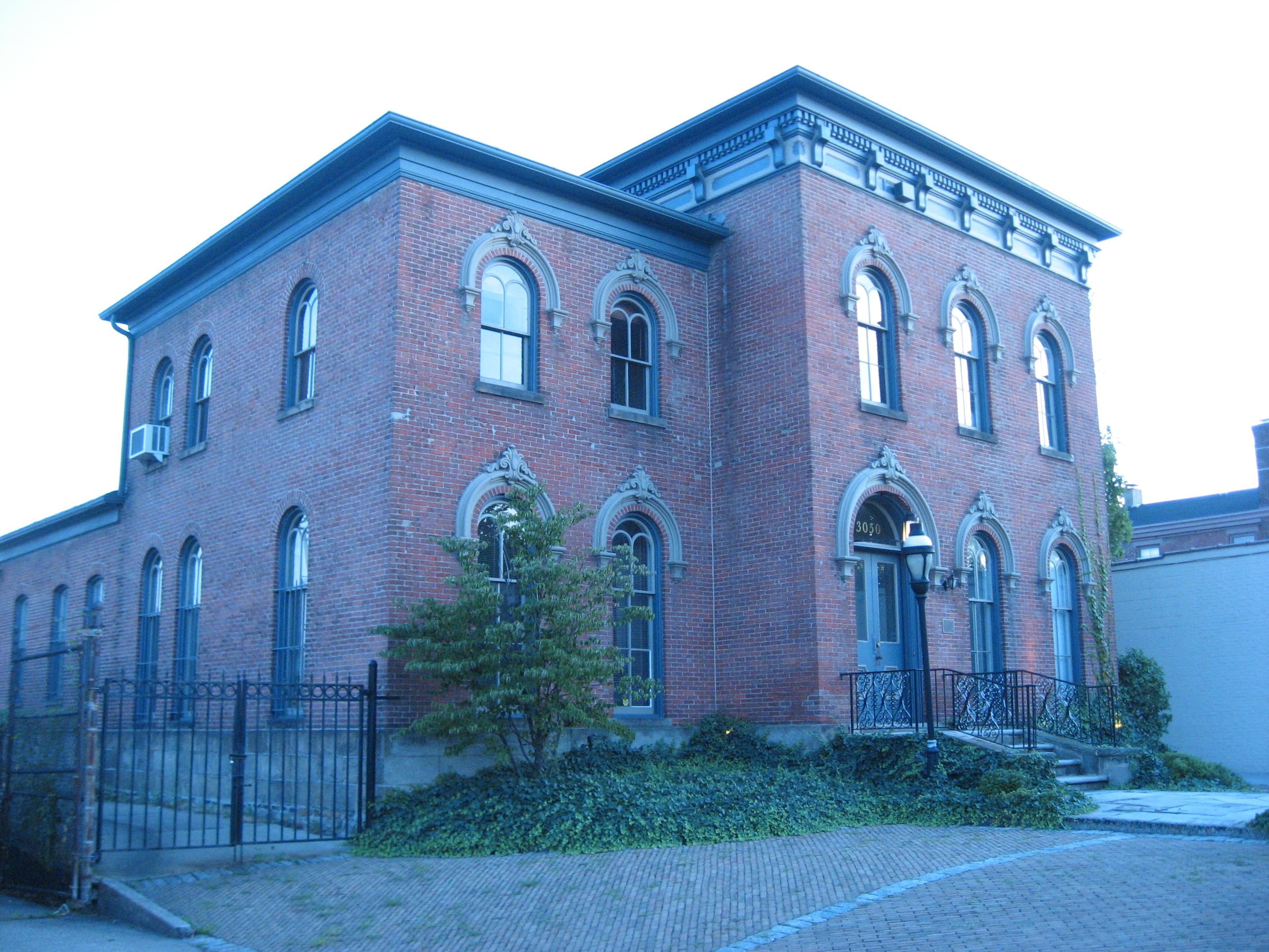 Front of the Phillip Gaensslen House, located at 3050 Prospect Avenue in Cleveland, Ohio, United States. Built in 1870, the Italianate house is listed on the National Register of Historic Places.